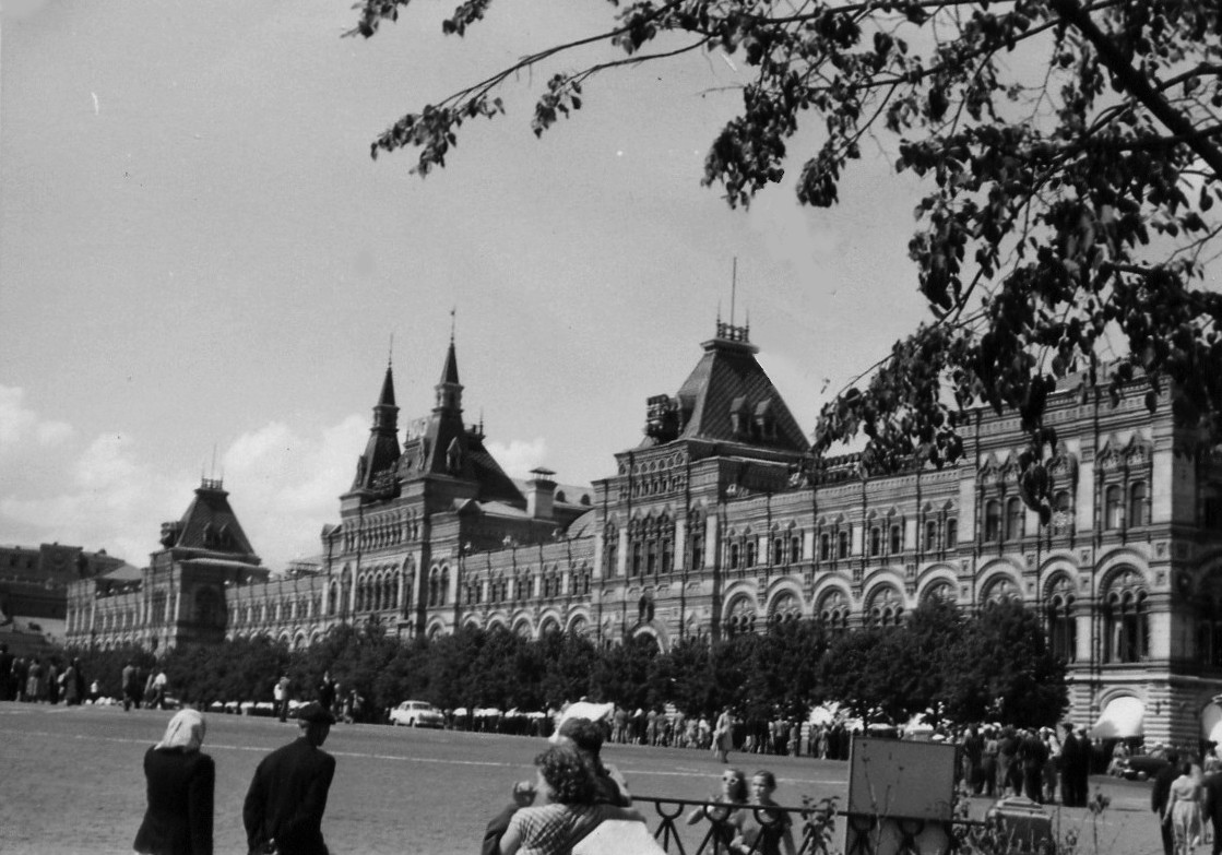 Department store Gum in Moscow.